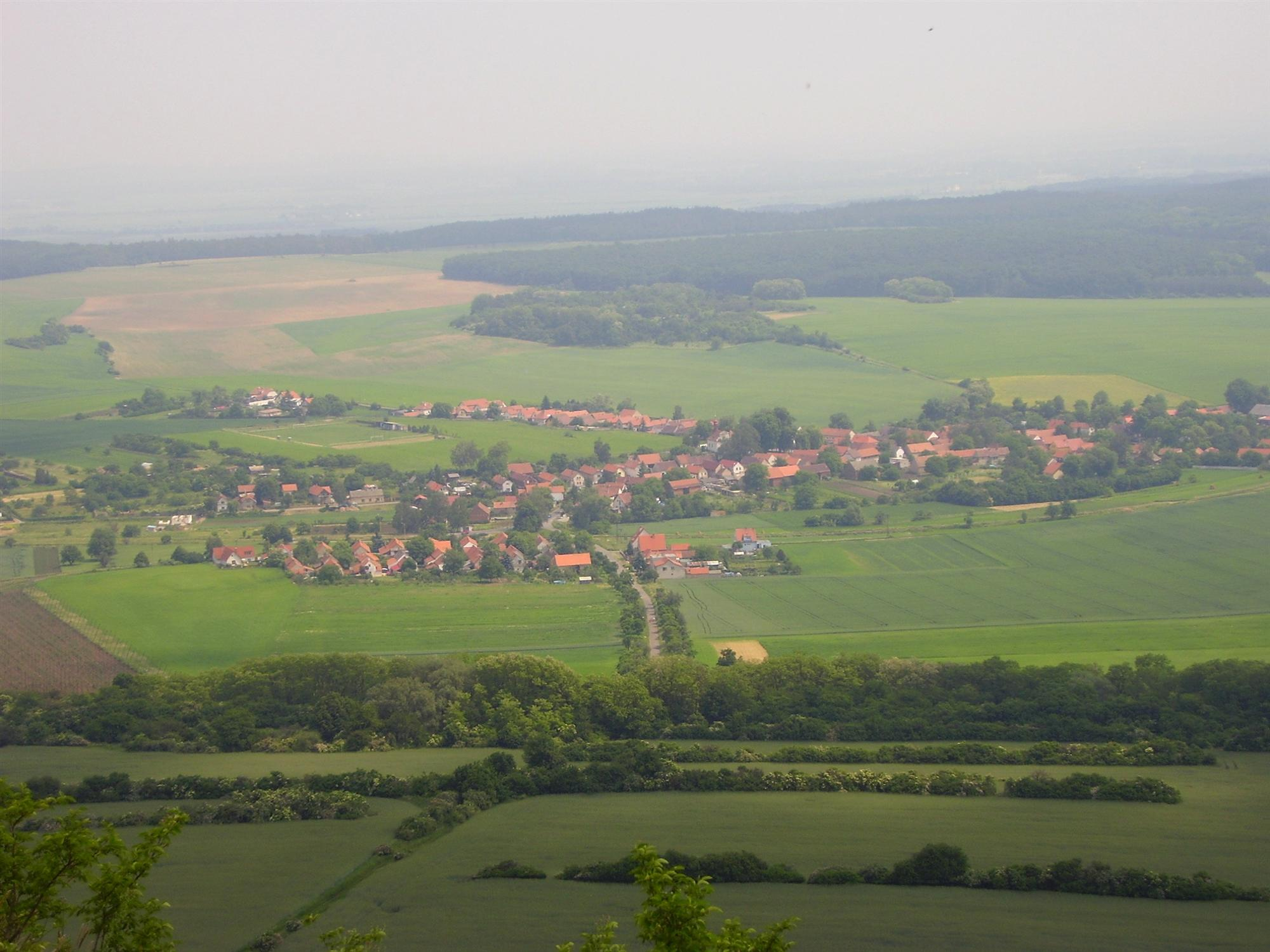 Look from Prague view on Říp on Ctiněves